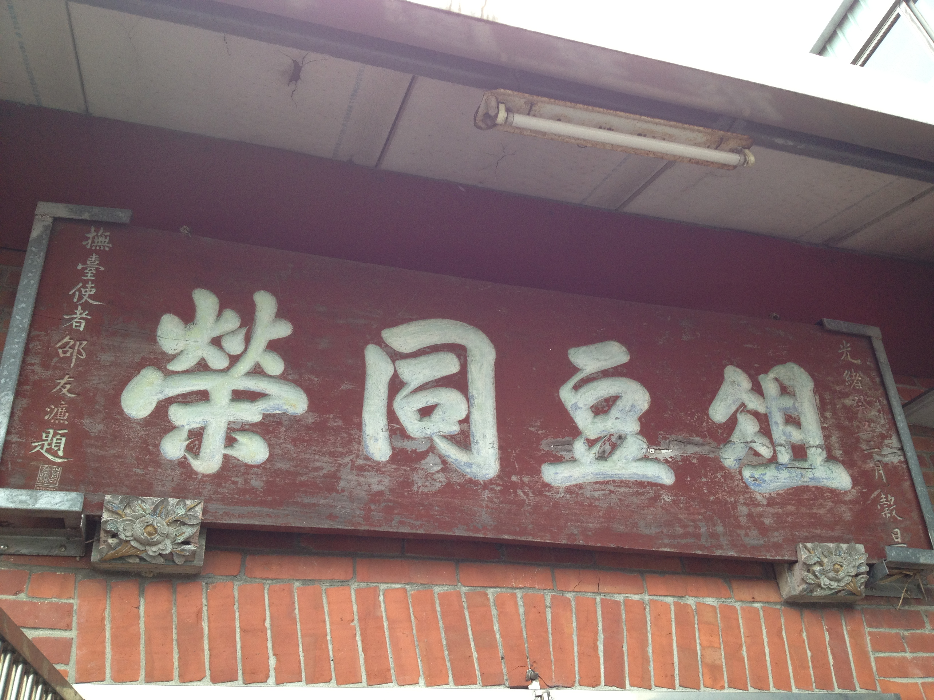 This's Taiwan history at 1886